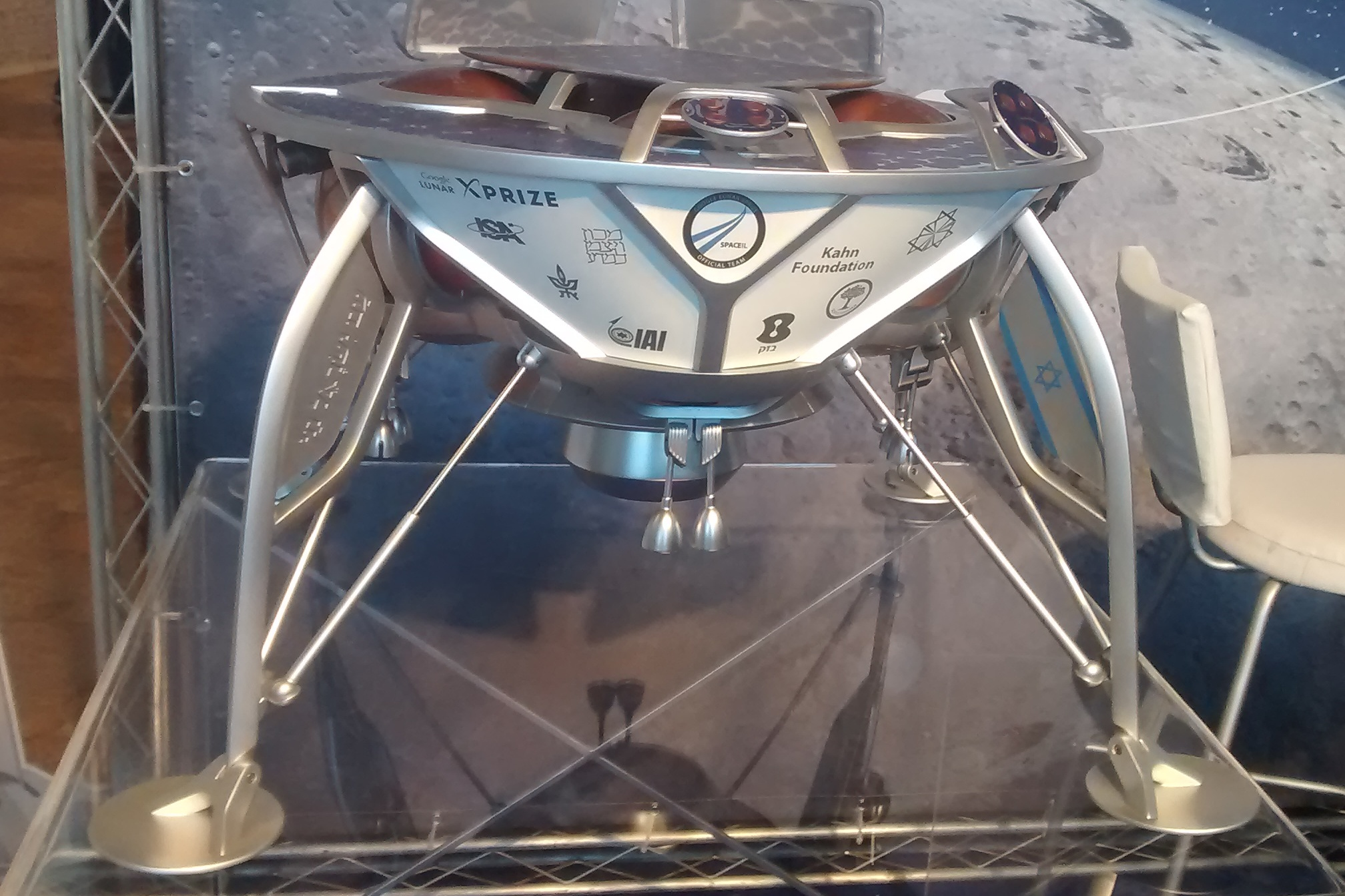 SPACEIL model as was presented in the 66th IAC in Jerusalem